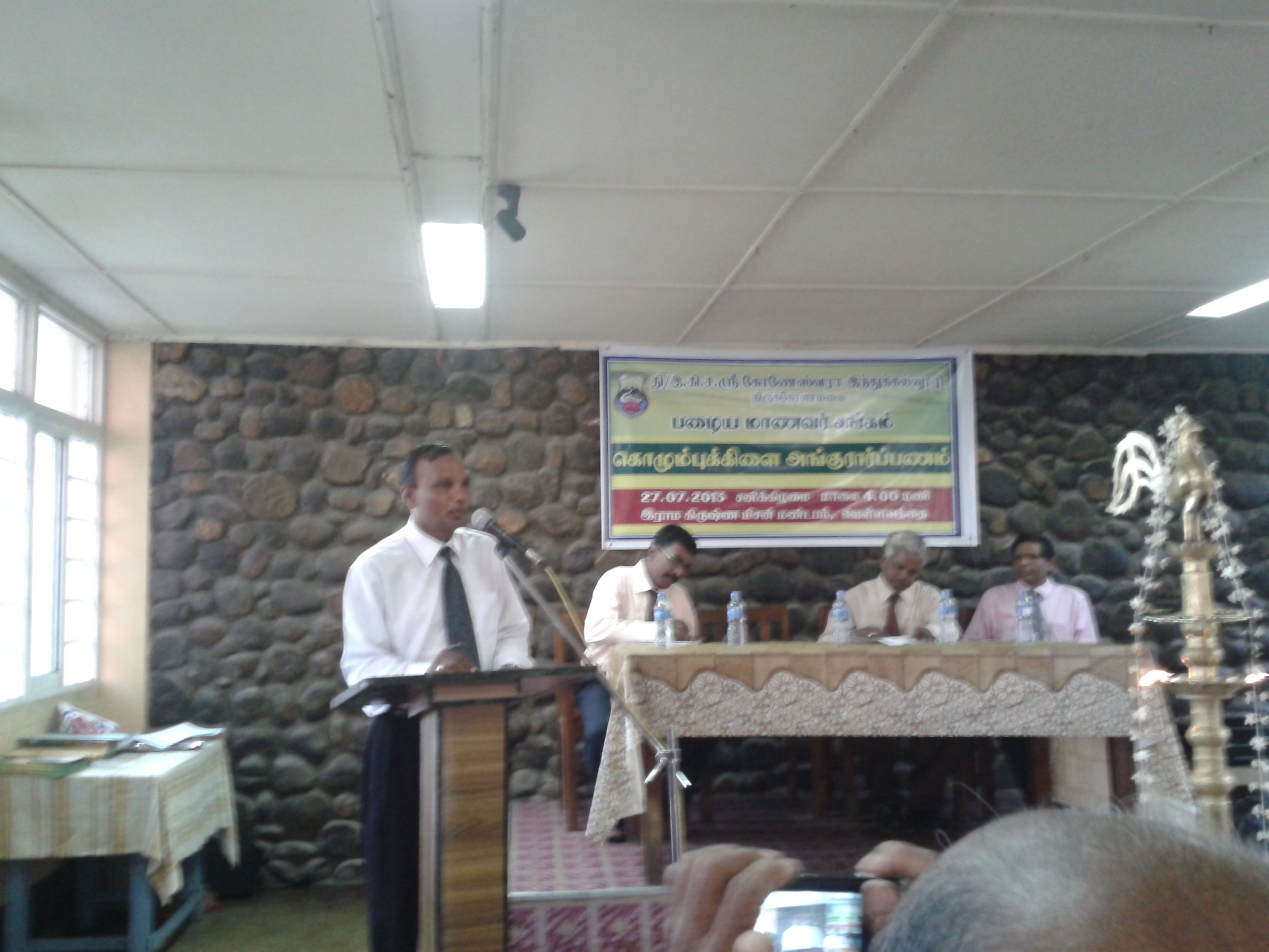 Trinco Hindu College, Sri Lanka Innaguration of Old boys association in Colombo